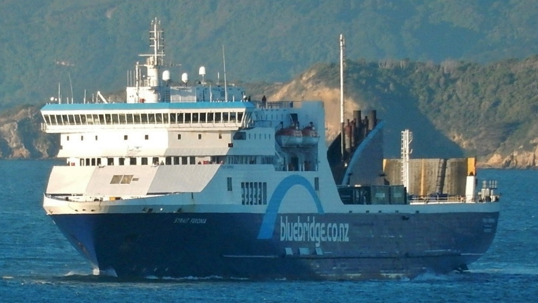 Ferry En Route to Picton